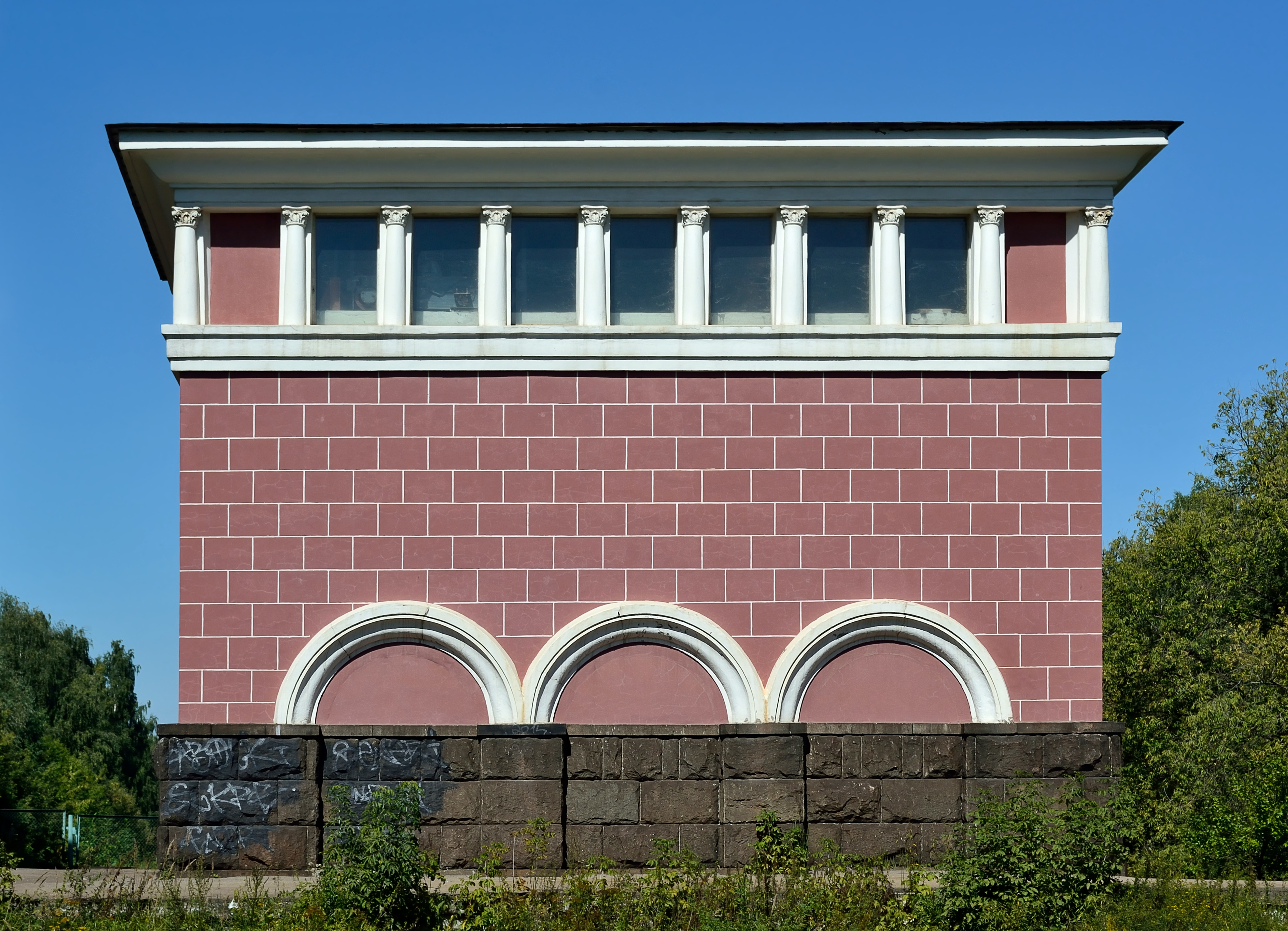 Korolyov, Moscow Oblast. A valve house of the Eastern Water Supply Canal (Akulovo Water Supply Canal) located at the crossing of the canal and the railway line between the stations Podlipki-Dachnye and Bolshevo. 1930s.